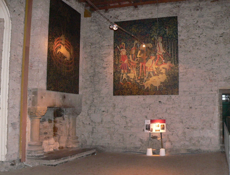 Stirling Castle, Stirling, Scotland - tapestries in the Queen's Presence Chamber in the palace